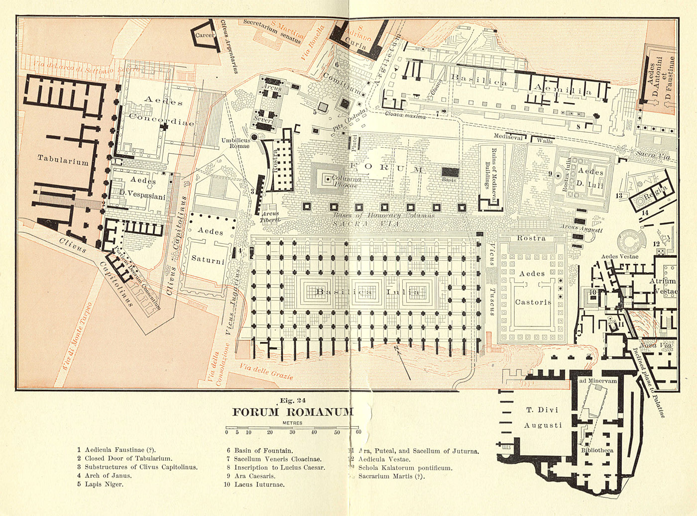 Scan of a map of the Roman Forum, taken from Ball Platner's The Topography and Monuments of Ancient Rome (1904) This image is in the public domain because it was first published before January 1st, 1923. The author of the image itself also gives permission for the image to be used for educational purposes.